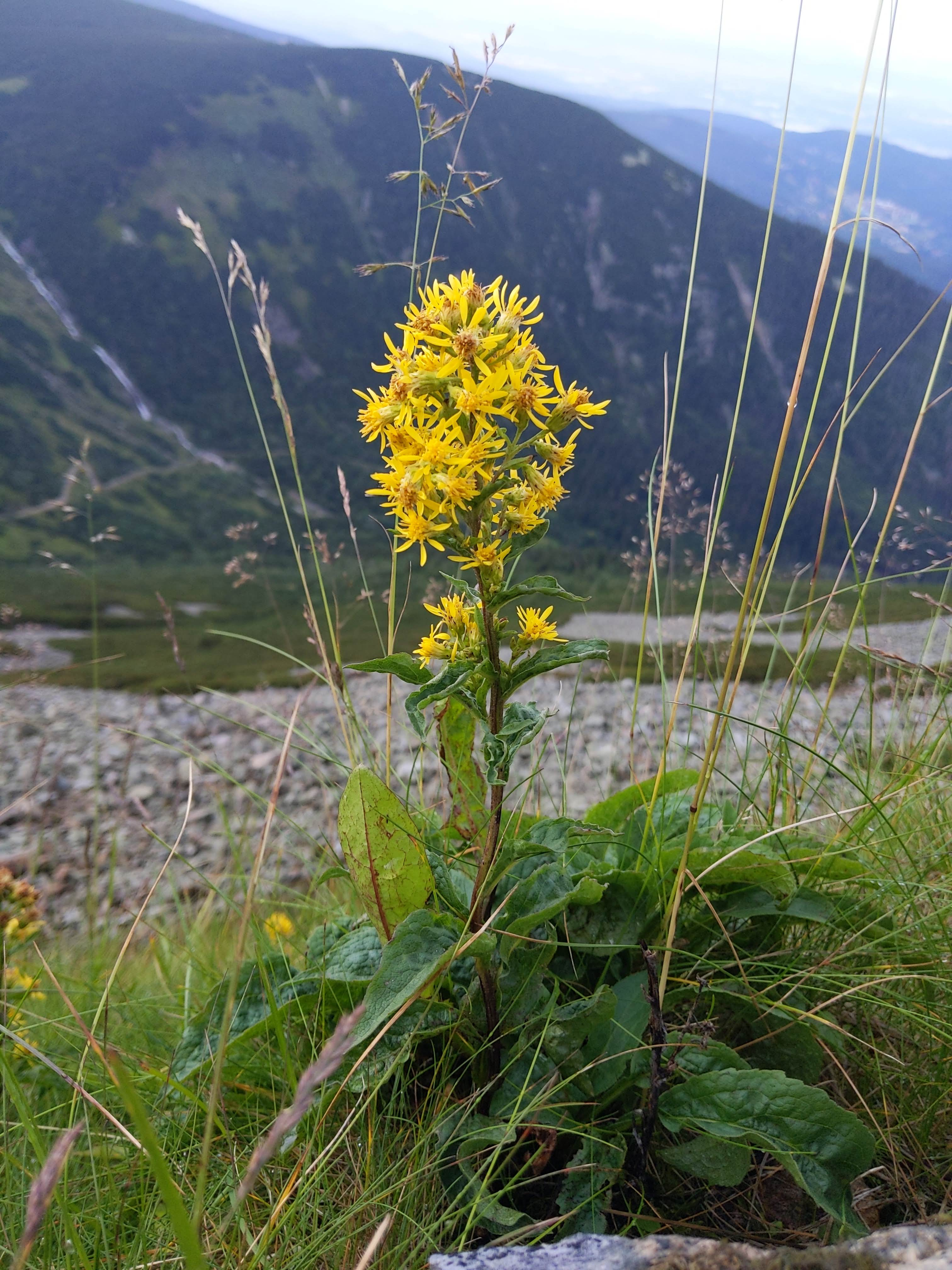 Solidago virgaurea subsp. minuta, Sněžka, Krkonoše, Czechia